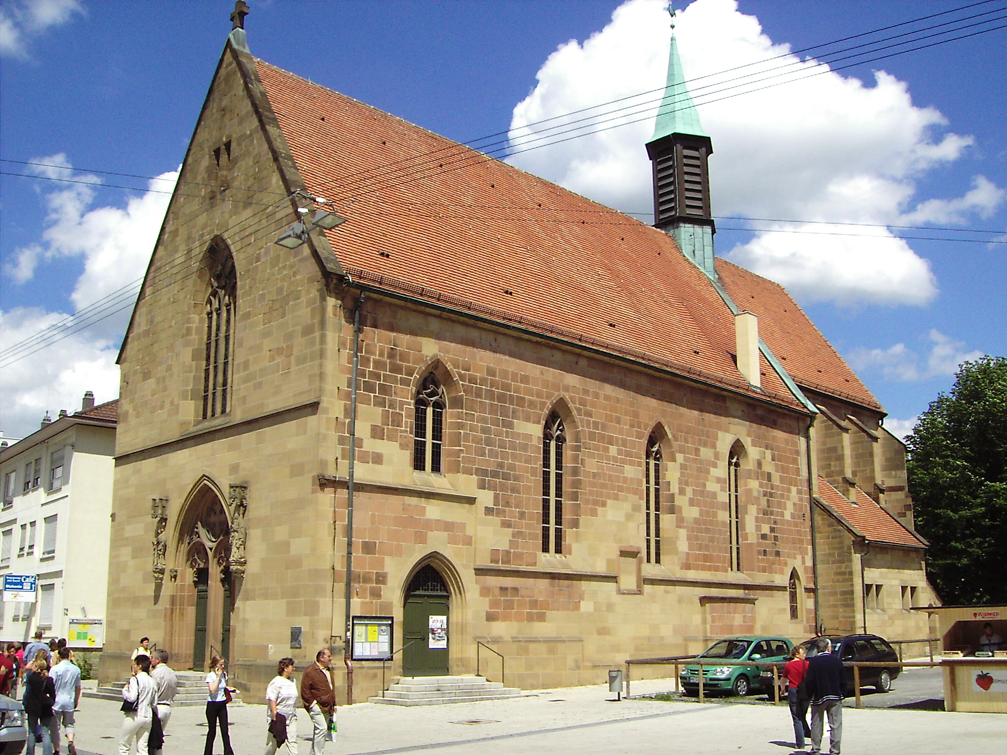 Church "Nikolaikirche" of the City Heilbronn